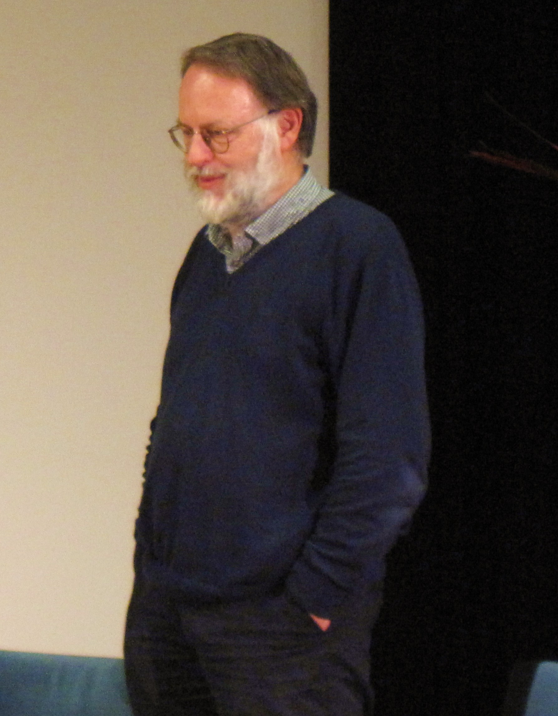 Swedish university professor in architectural history, Claes Caldenby of Chalmers University of Technology.